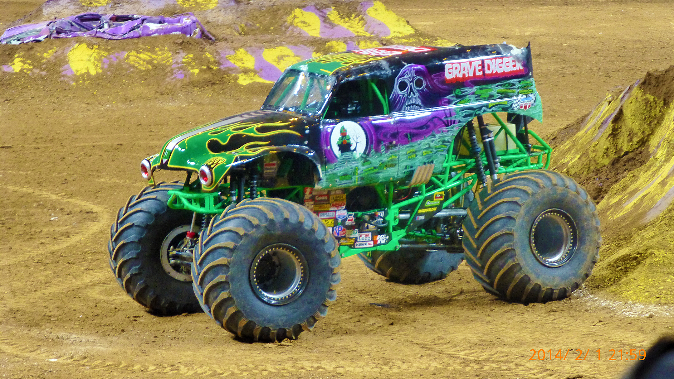 This is a pic of Grave Digger at Monster Jam, in Saint Louis, Missouri, at the Edward Jones Dome, February 1st, 2014.